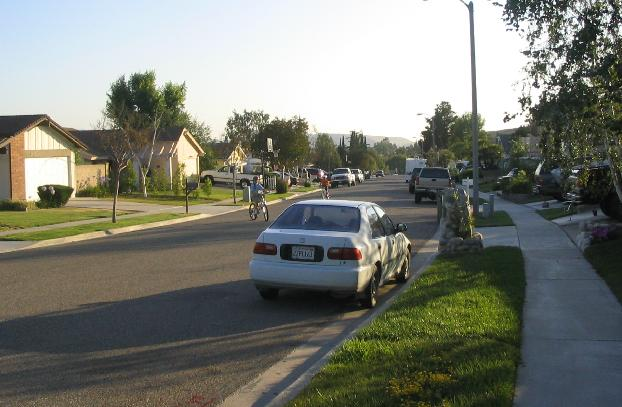 Simi Valley, California